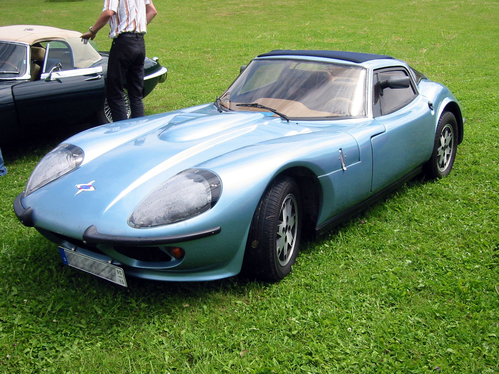 A 1984-1989 Marcos GT with a 2.8 litre Ford V6 engine at the 13th Autoshow in Bad König